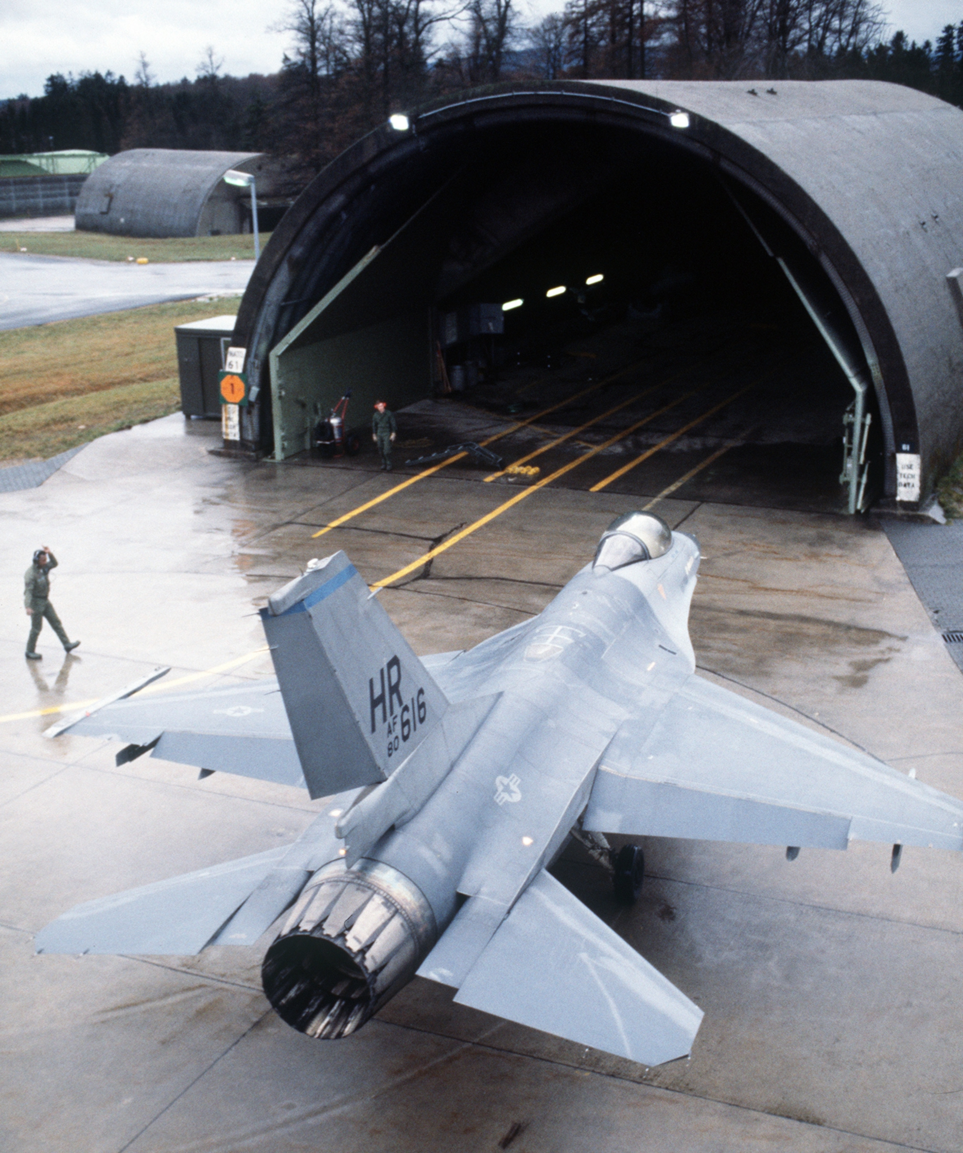 A U.S. Air Force General Dynamics F-16A Block 15B Fighting Falcon (s/n 80-0616) from the 10th Tactical Fighter Squadron, 50th Tactical Fighter Wing, is guided into a hangar at Hahn Air Base, Germany, after flying a support mission for "Certain Sentinel", a part of exercise "Reforger '86". The F-16A 80-0616 was retired by the USAF to the AMARC as FG-357 on 2 February 1996. It was later sold to Italy (s/n MM7263) and crashed into sea off Sardinia on 22 May 2006 following a collision with F-16A 82-1023/MM7246.